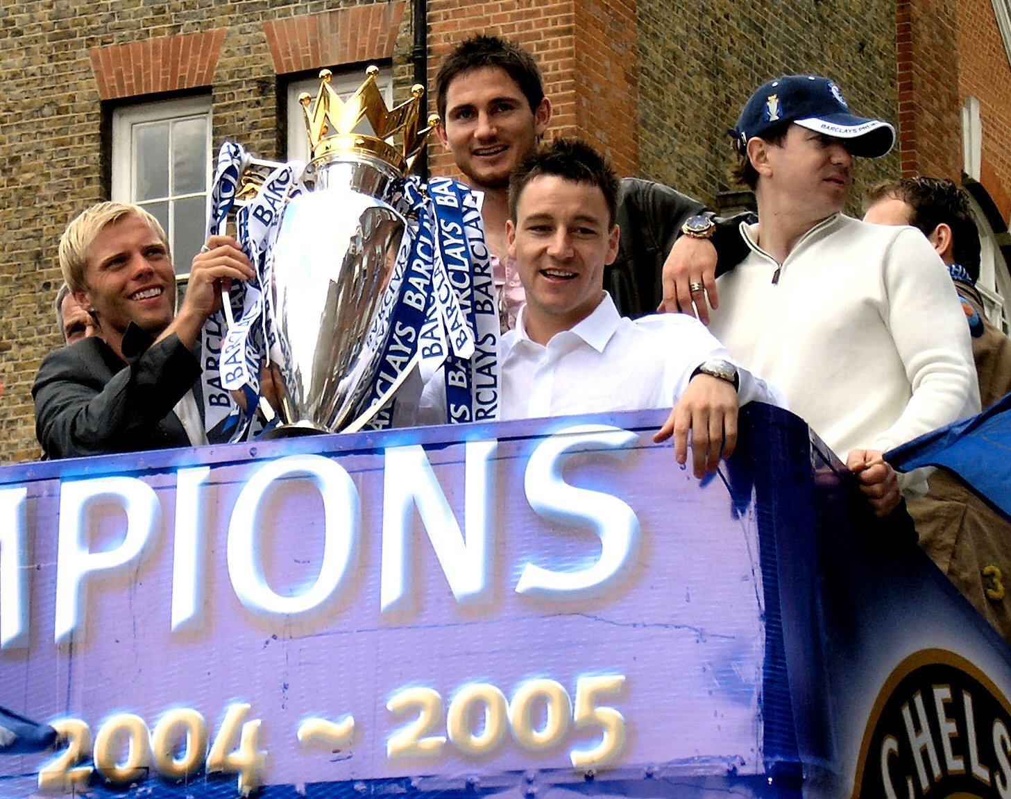 Chelsea players parade the 2004-5 Premiere League trophy